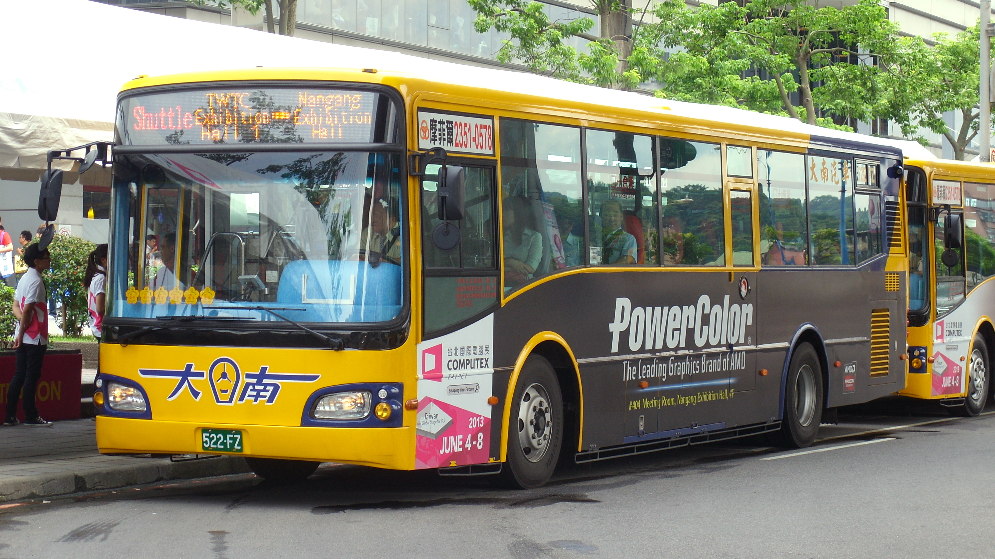 COMPUTEX 2013 - Official Inter-Hall Shuttle Bus with exhibitor's advertisement by PowerColor.